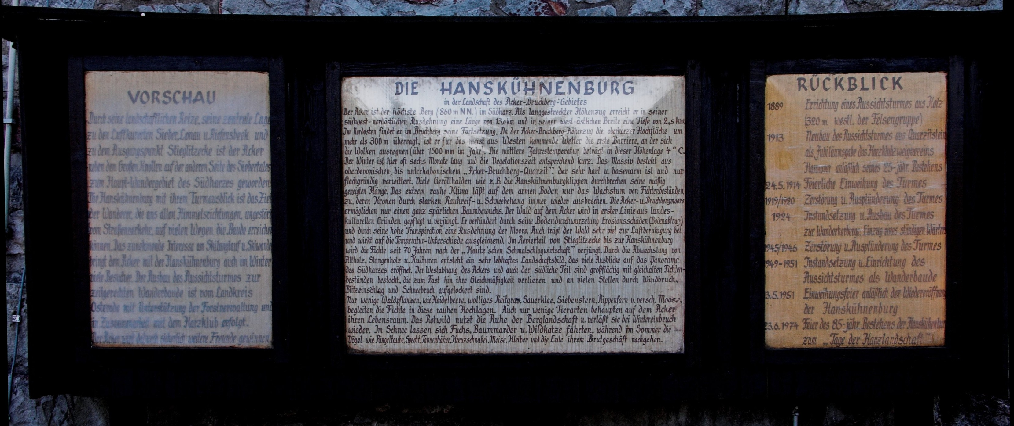 Information boards on the mountain hut of Hanskühnenburg, Harz mountains, Germany